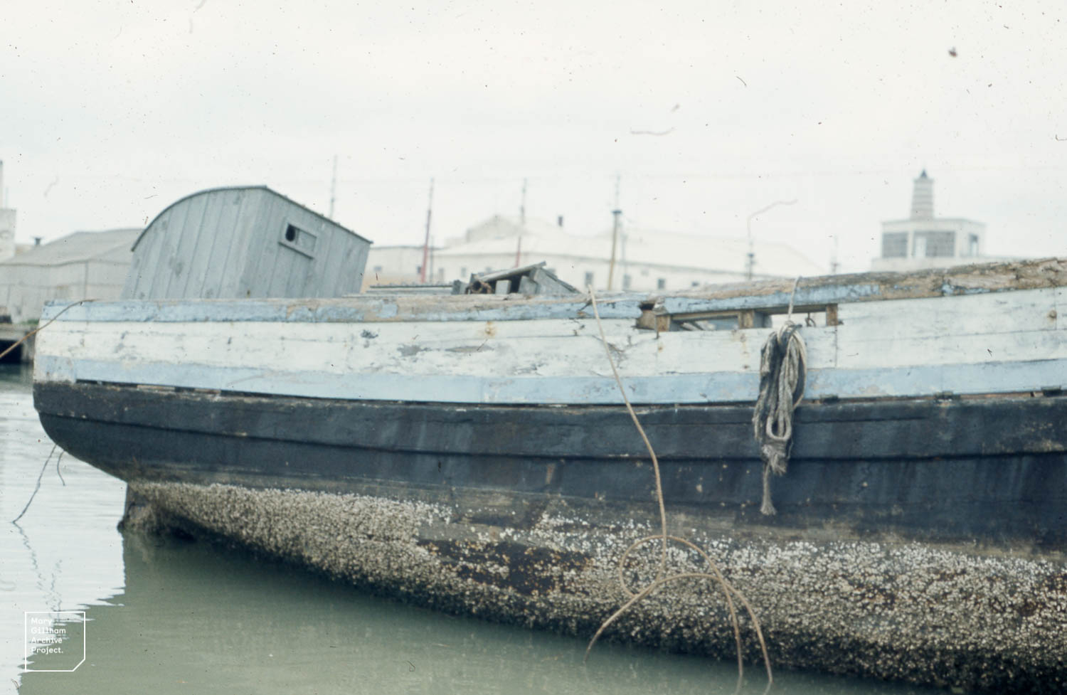 Barbette Saltmarsh boats, plants, stilts